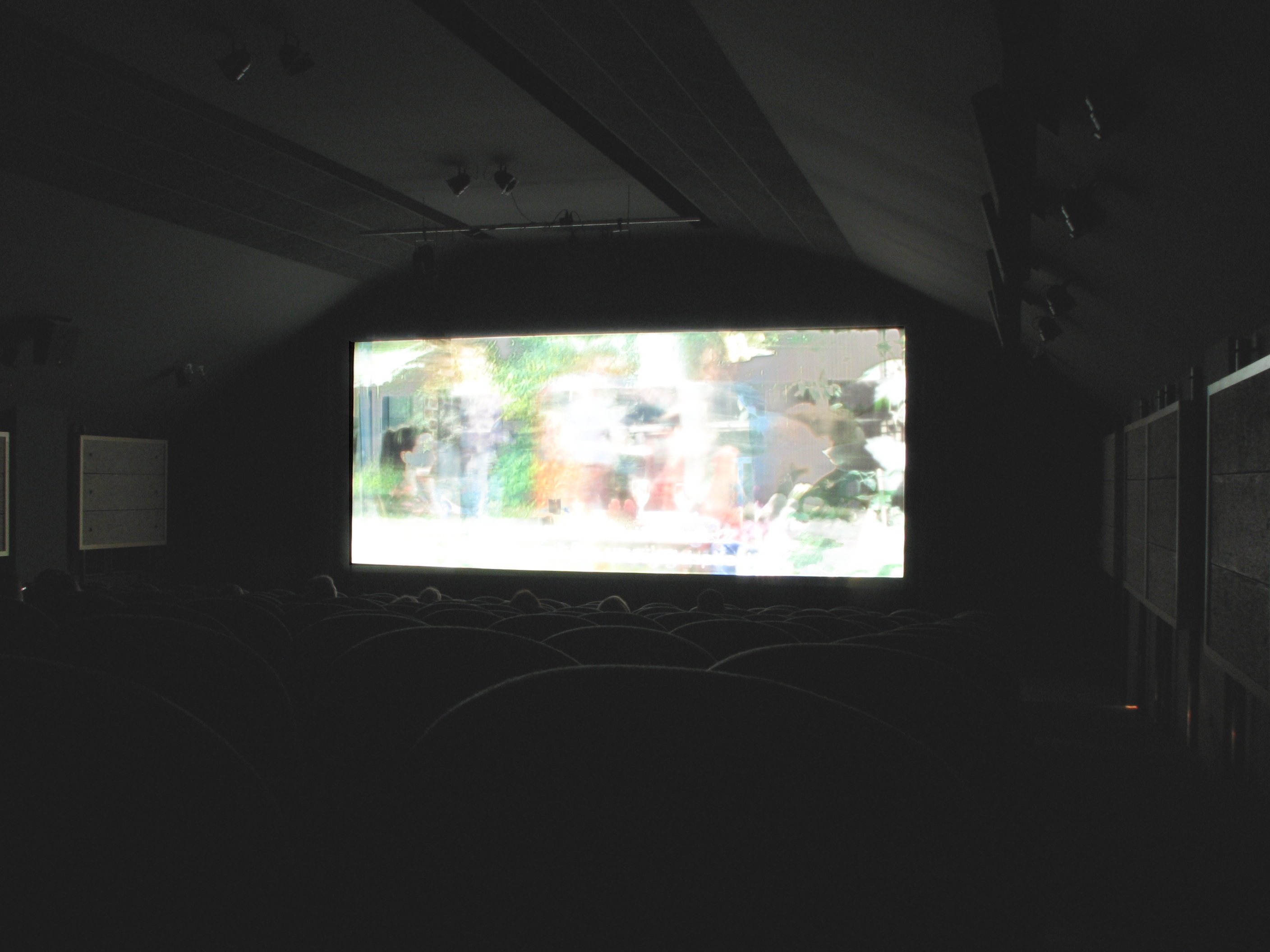 Cinema hall (movie theater) during projection, long exposures, HDR.